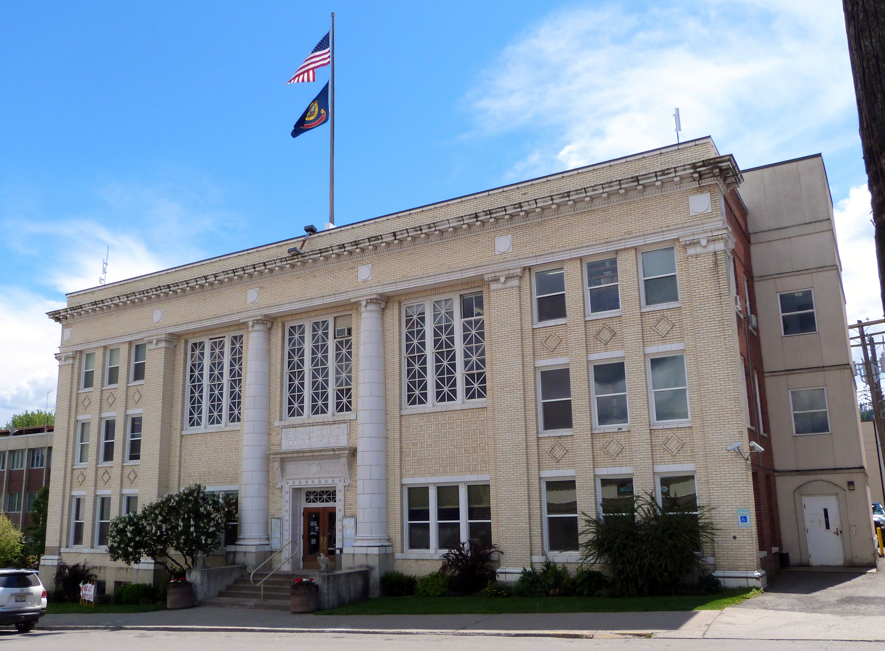 The historic Benewah County Courthouse (built 1924), located at the intersection of College Avenue and 7th Street in St. Maries, Idaho, United States, is listed on the US National Register of Historic Places.